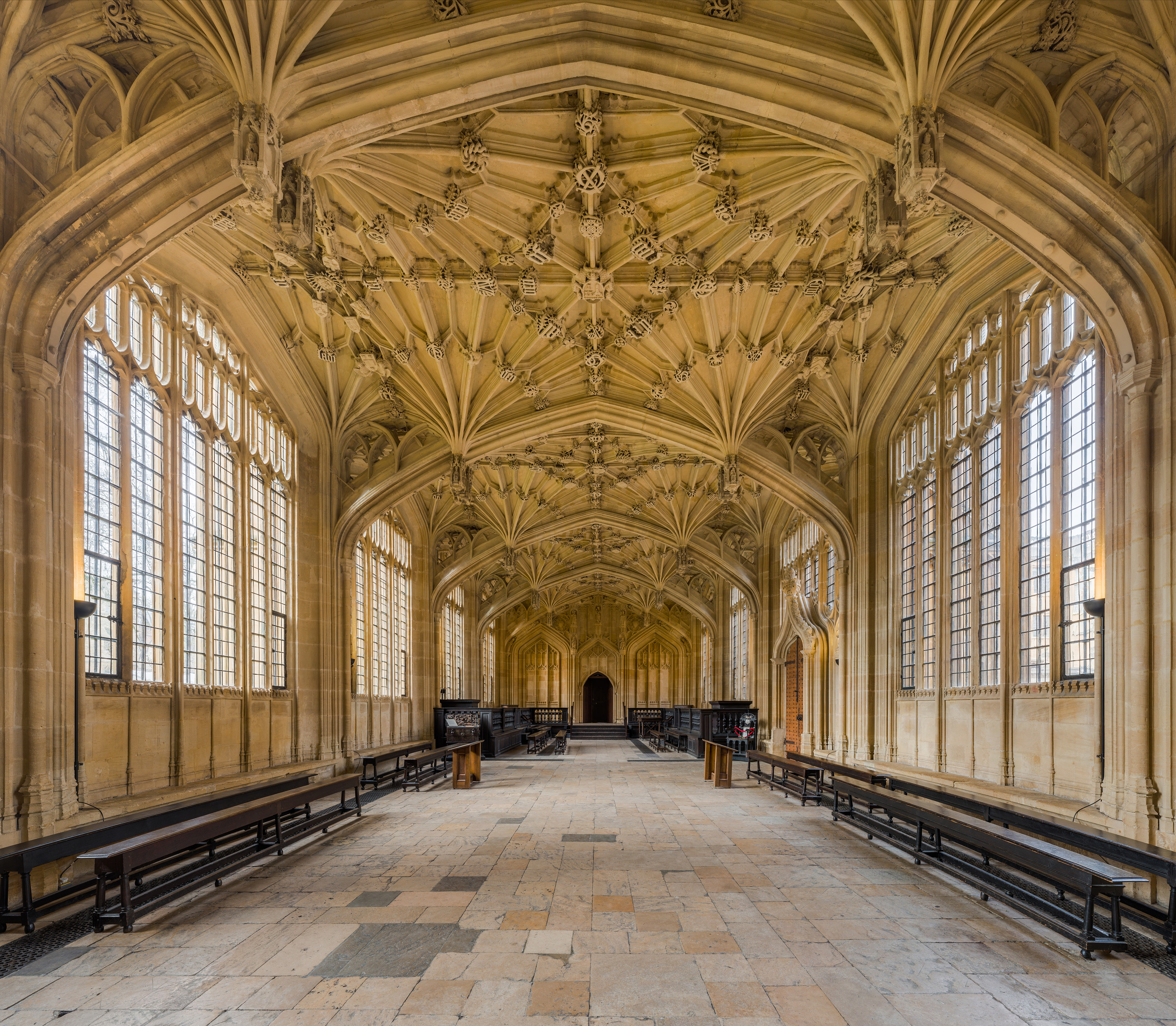 Looking west in the interior of the Divinity School in the Bodleian Library, Oxford, Oxfordshire, England.